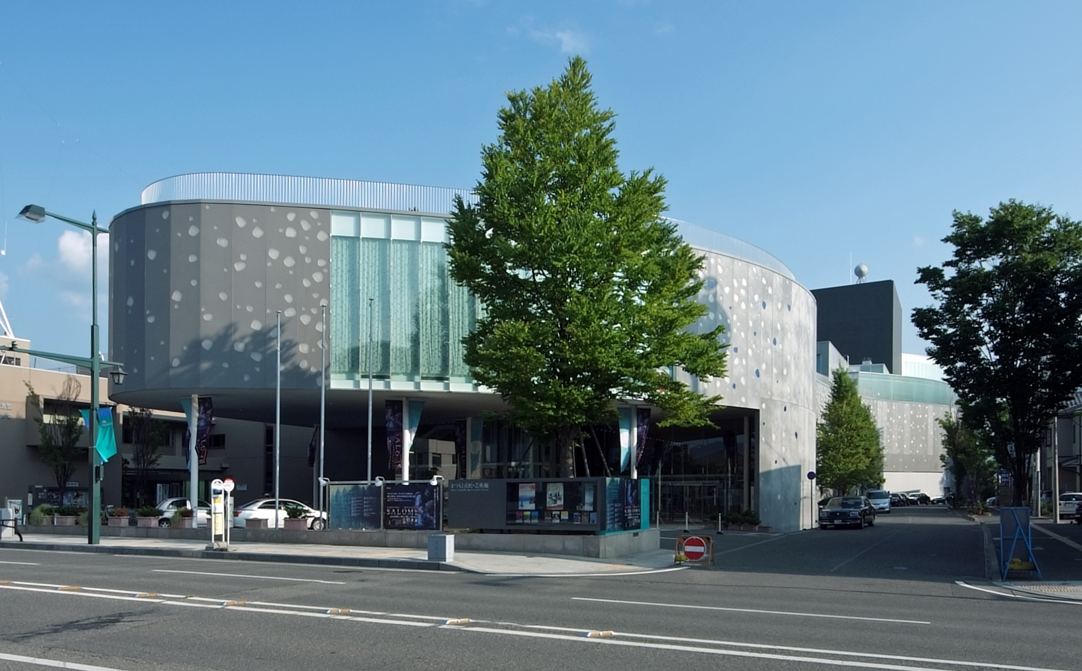 Matumoto Performing Art Center, Designed by Toyo Ito in 2004.